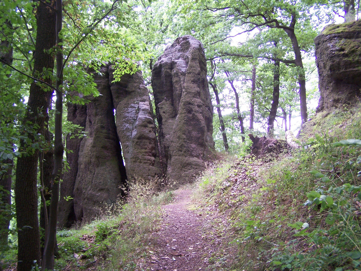 A living stone in form of anthropomorphic statures - the traditional name is monk and nun.